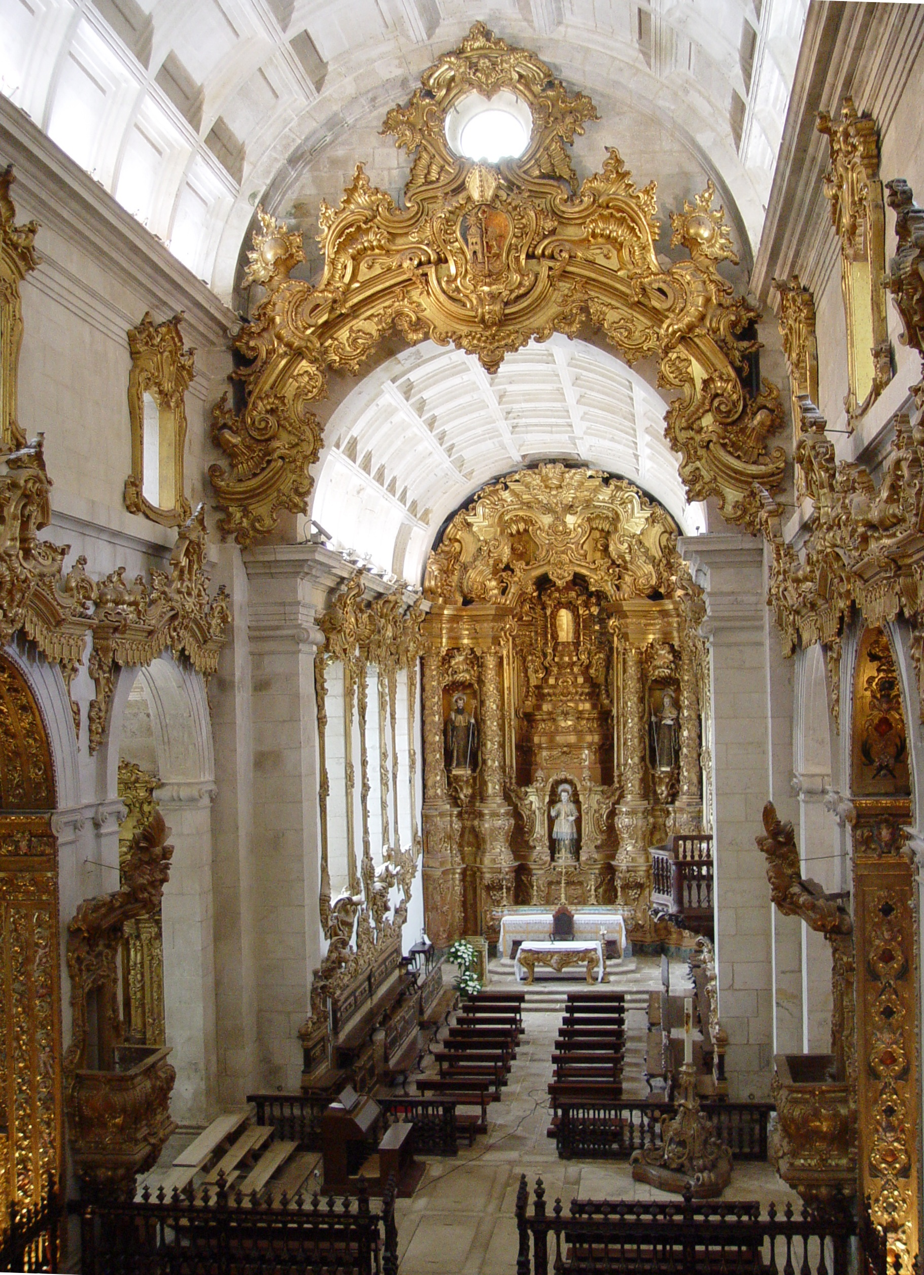 Interior of Tibaes Church, in Braga, Portugal.